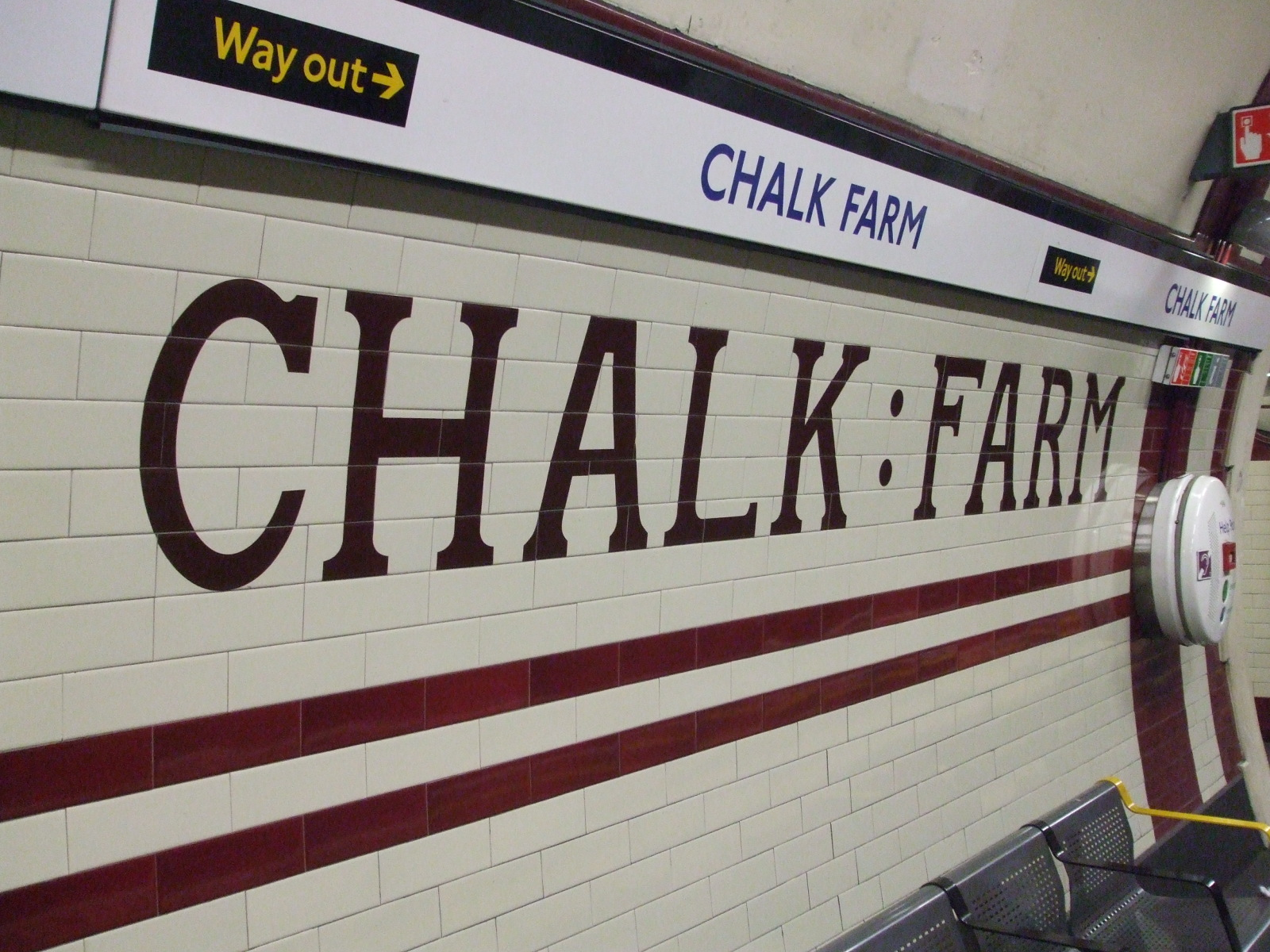 Tiling on Chalk Farm tube station northbound platform